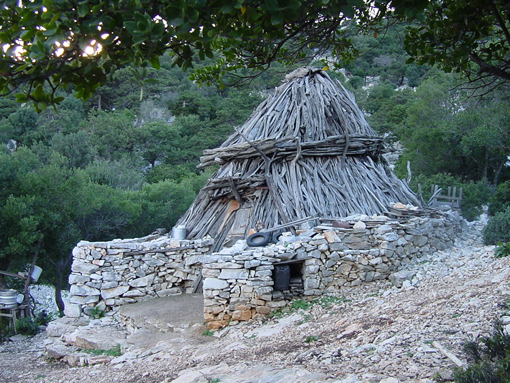 Dorgali, Sardinia. Pinnetta Typical Sardinian Hut